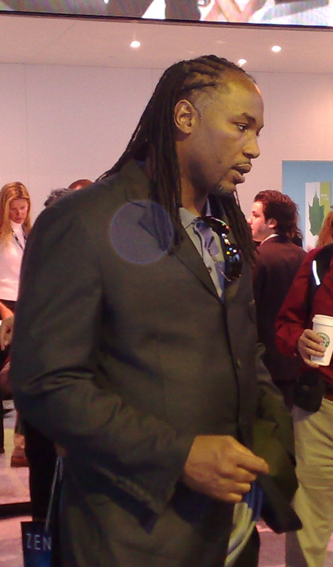 Lennox Lewis at Ces